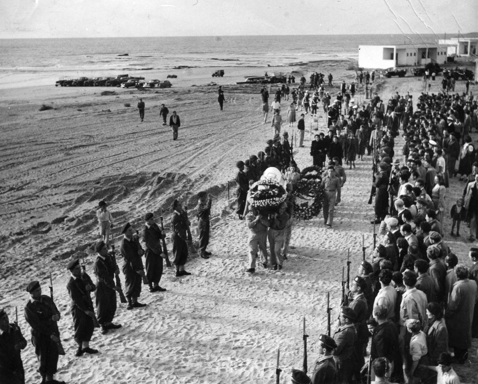 Hannah Senesh, People of Israel